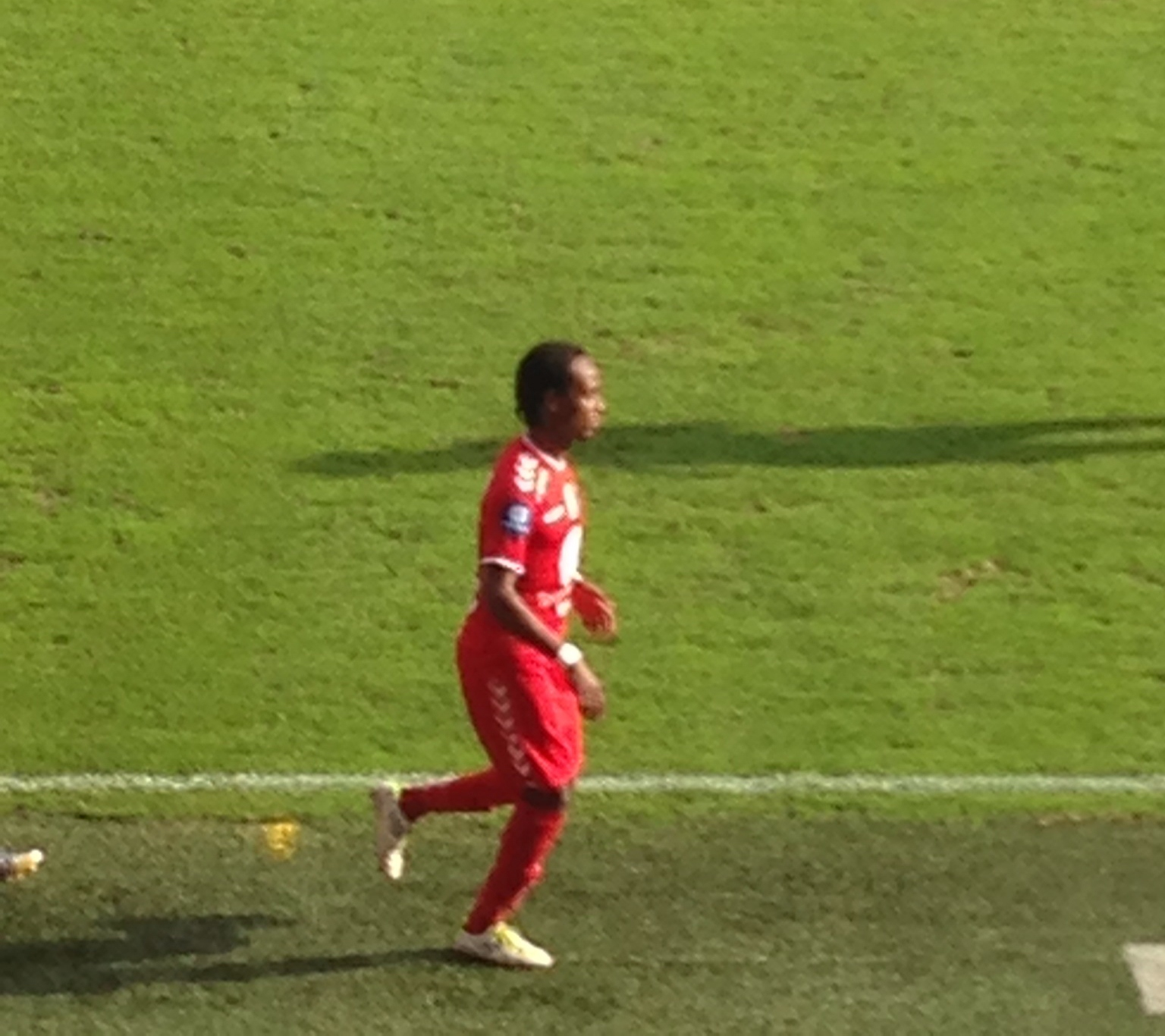 Amin Askar